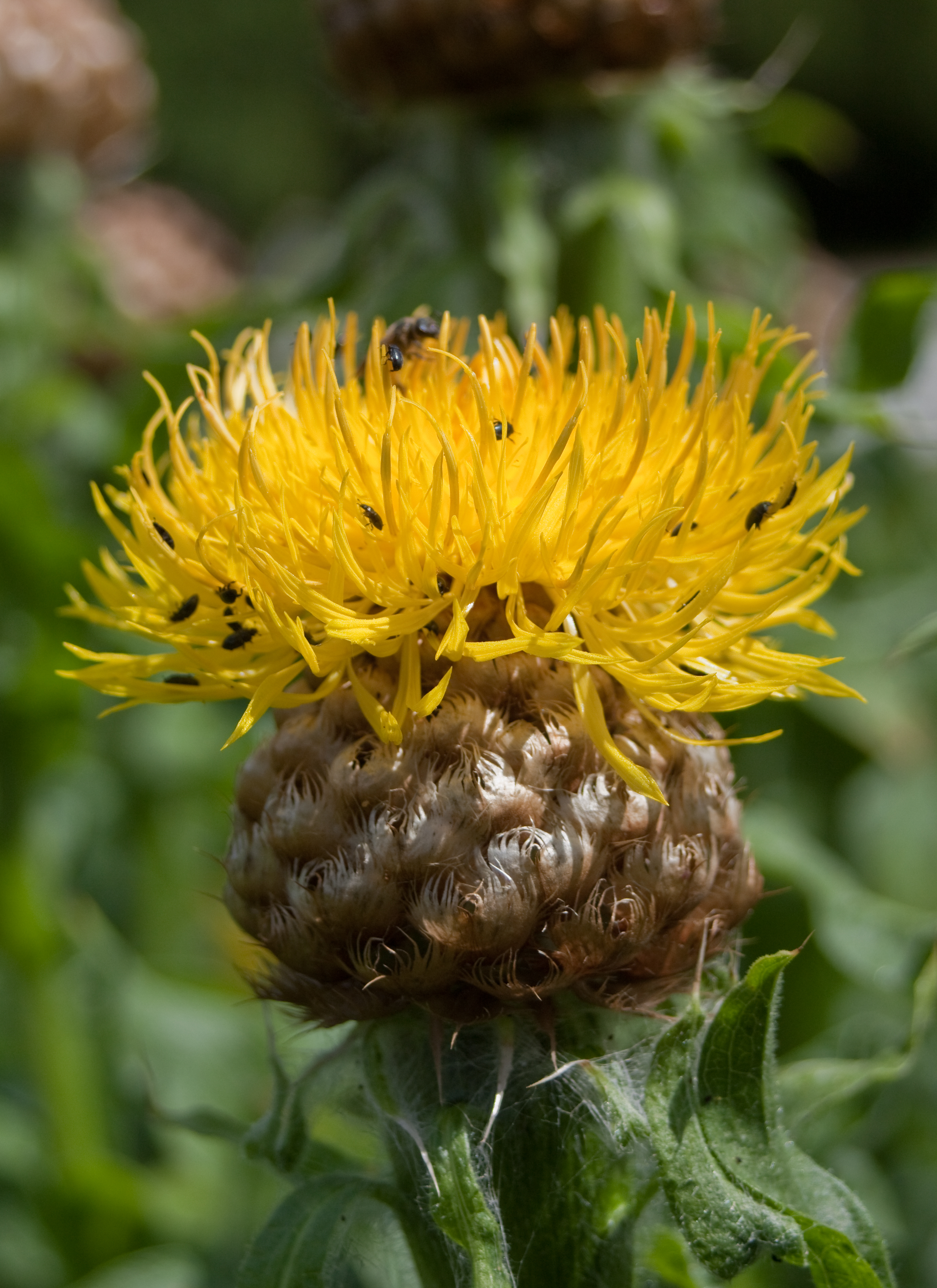 Centaurea macrocephala, photographed in Vivary Park, Taunton, Somerset, UK.